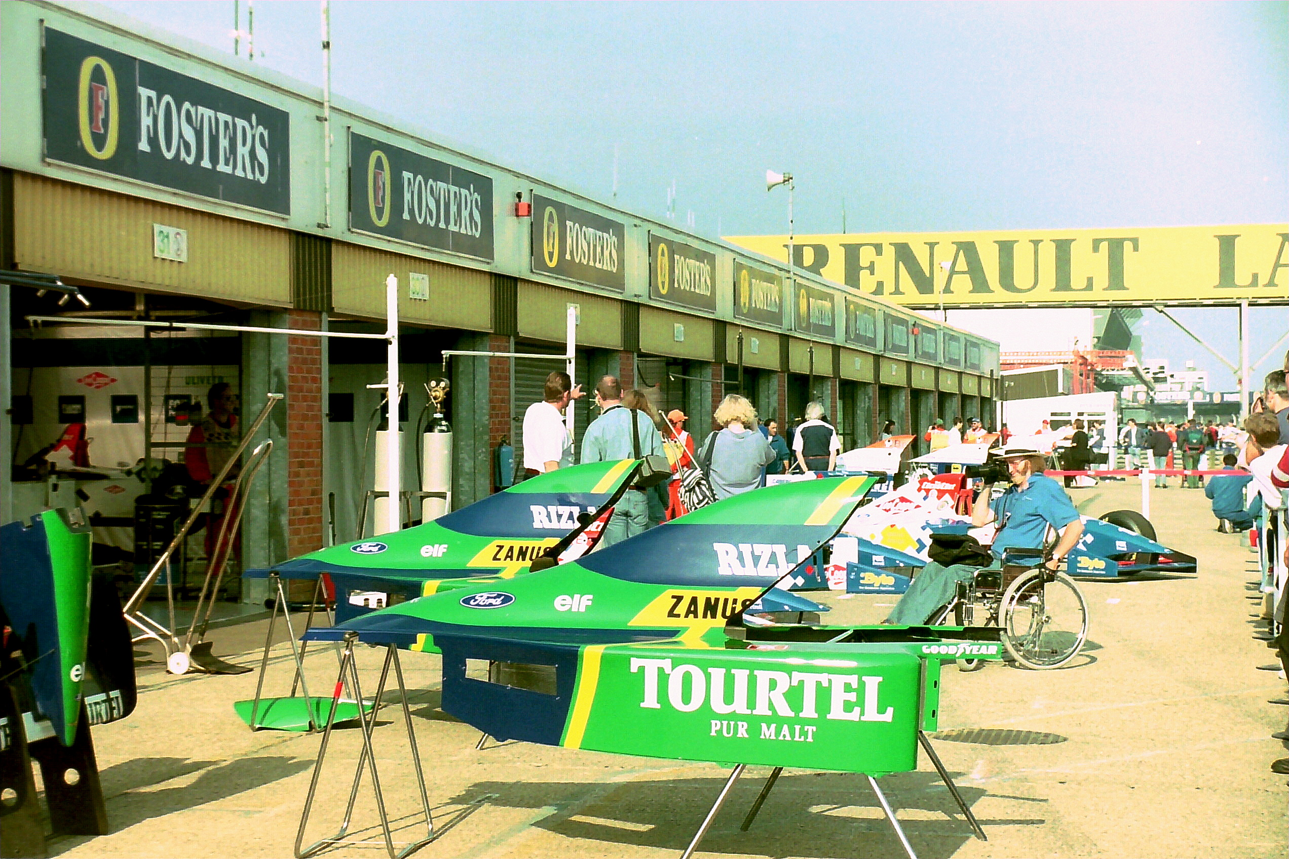 Larrousse pits at the 1994 British Grand Prix